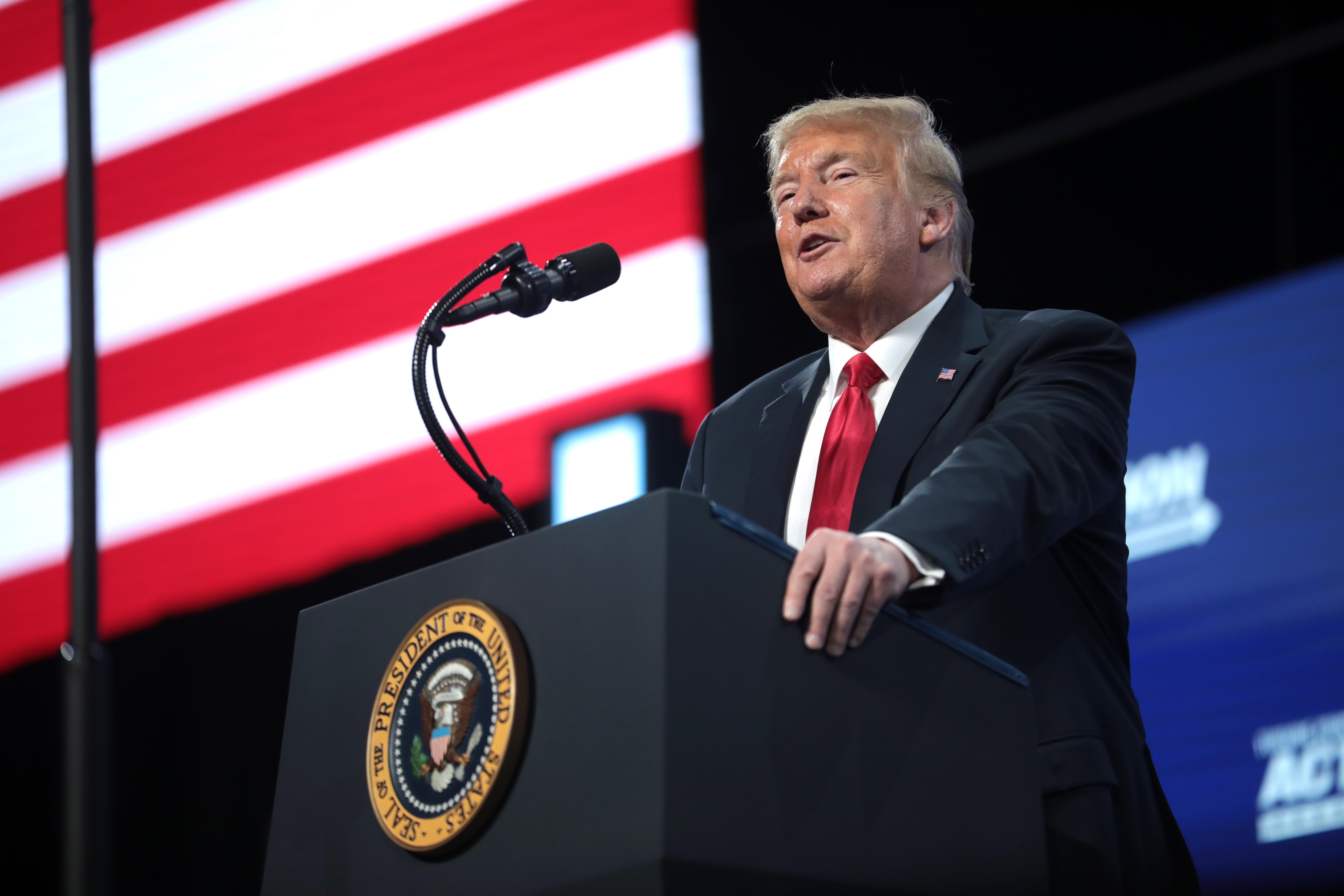 President of the United States Donald Trump speaking with supporters at an "An Address to Young Americans" event hosted by Students for Trump and Turning Point Action at Dream City Church in Phoenix, Arizona.